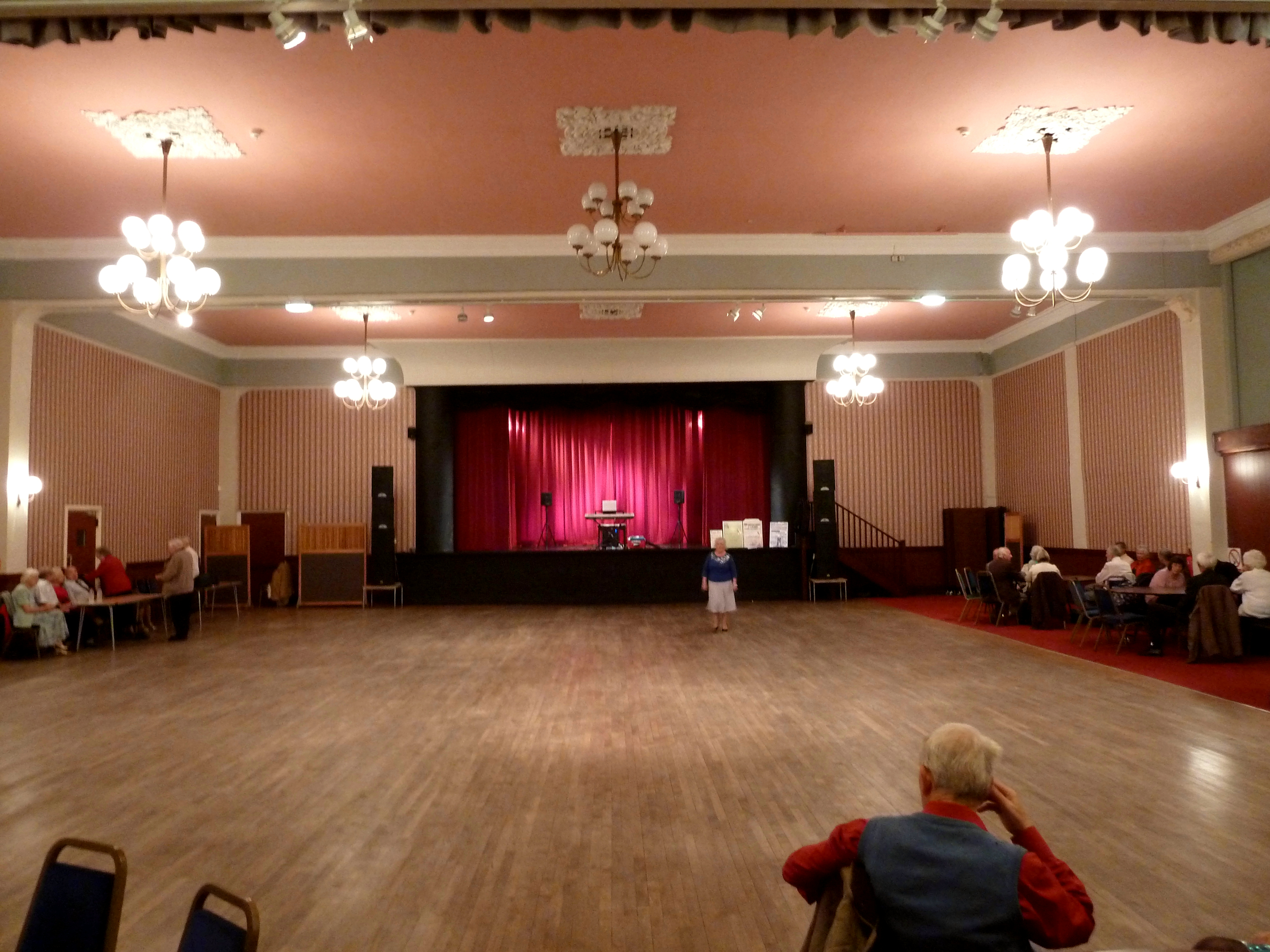 Kings Hall, Herne Bay, Kent England. The Hall looking west towards stage.